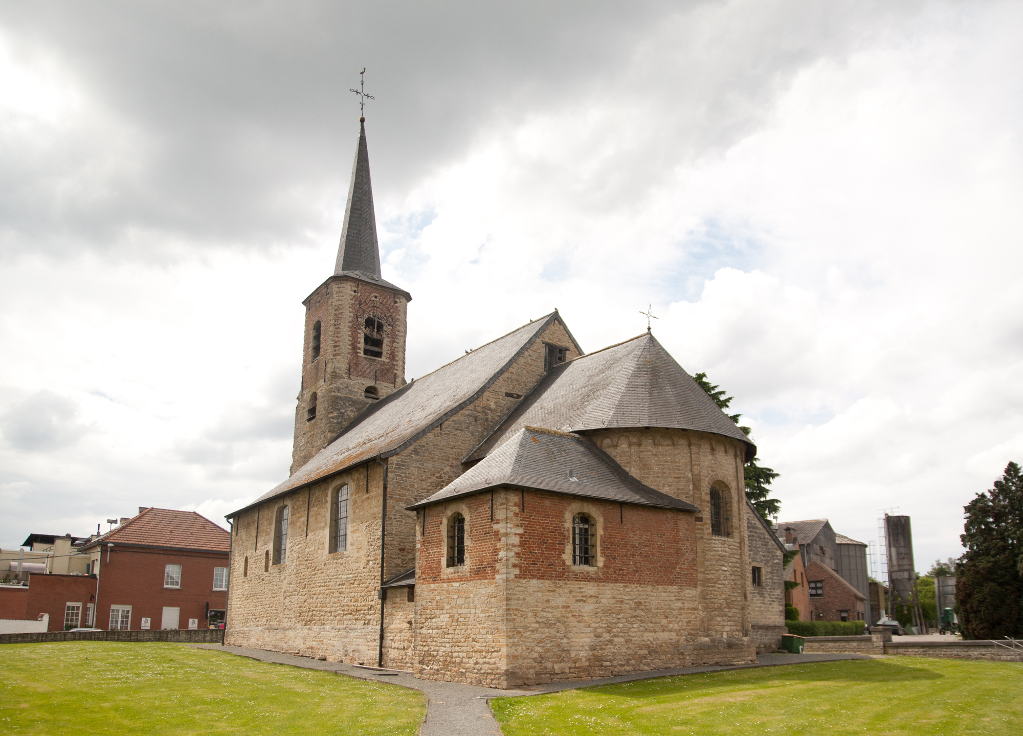 View from the southeast of Saint Paul's church in Vossem, Tervuren.